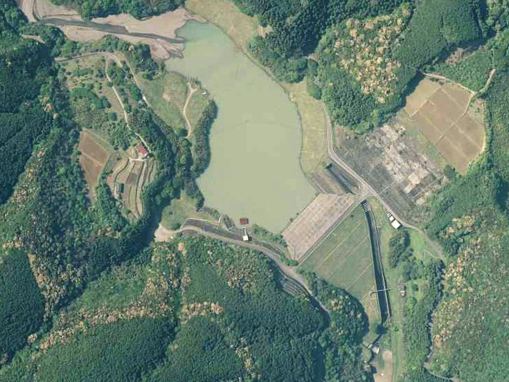 Seiganji Dam.